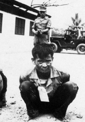 "Youthful hard-core Viet Cong, heavily guarded, awaits interrogation following capture in the attacks on the capital city during the festive Tet holiday period." 1968. Credit: National Archives and Records Administration